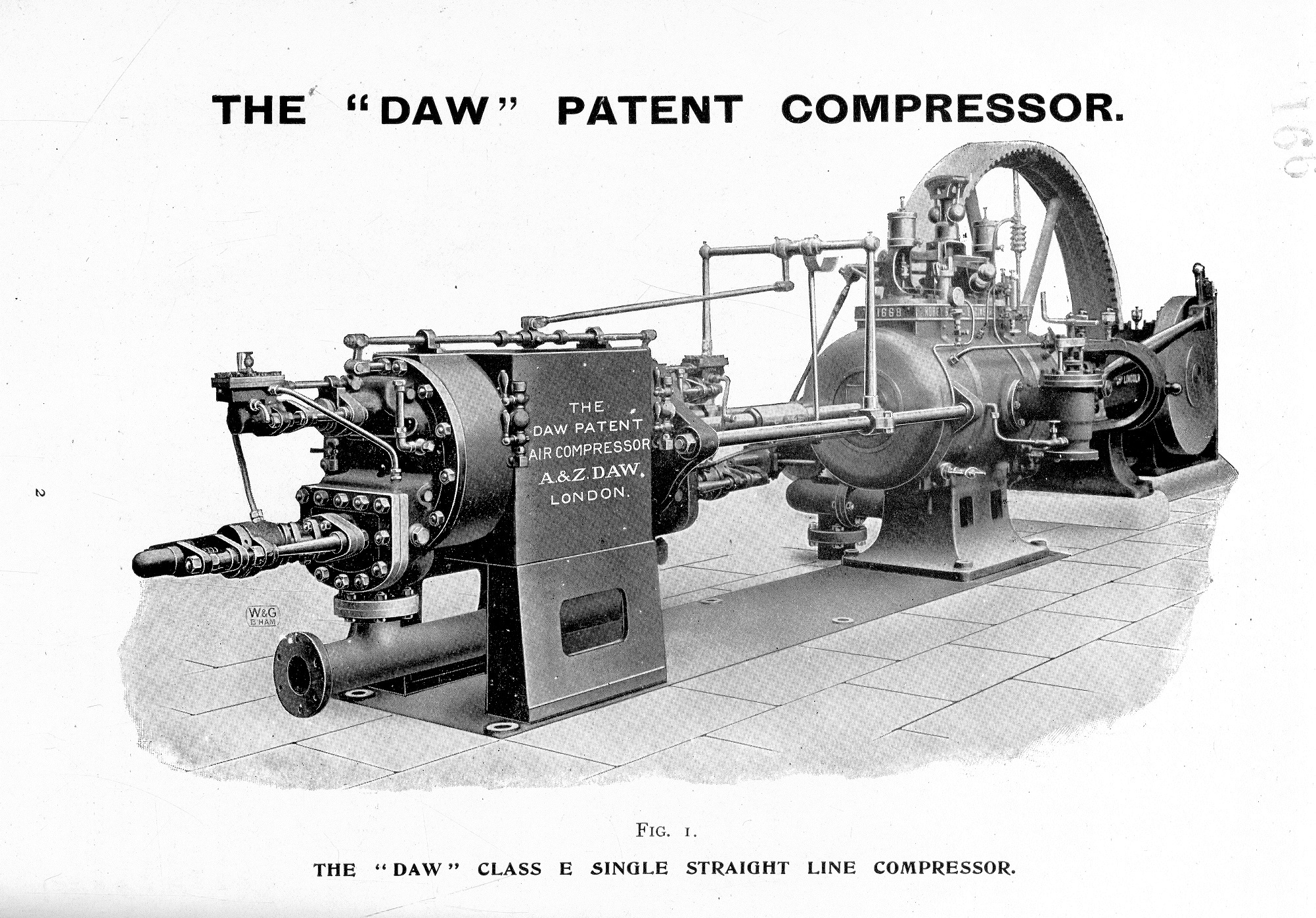 A&Z Daw catalogue (one date within is 1902), page 2 showing the Daw Class E Single Straight Line compressor. The original from which this has been scanned is in the North of England Institute of Mining and Mechanical Engineers. It is reference Tracts vol 9 p166. The scan and the upload to Wiki Commons have been made with the permission and direction of their librarian Jennifer Kelly.